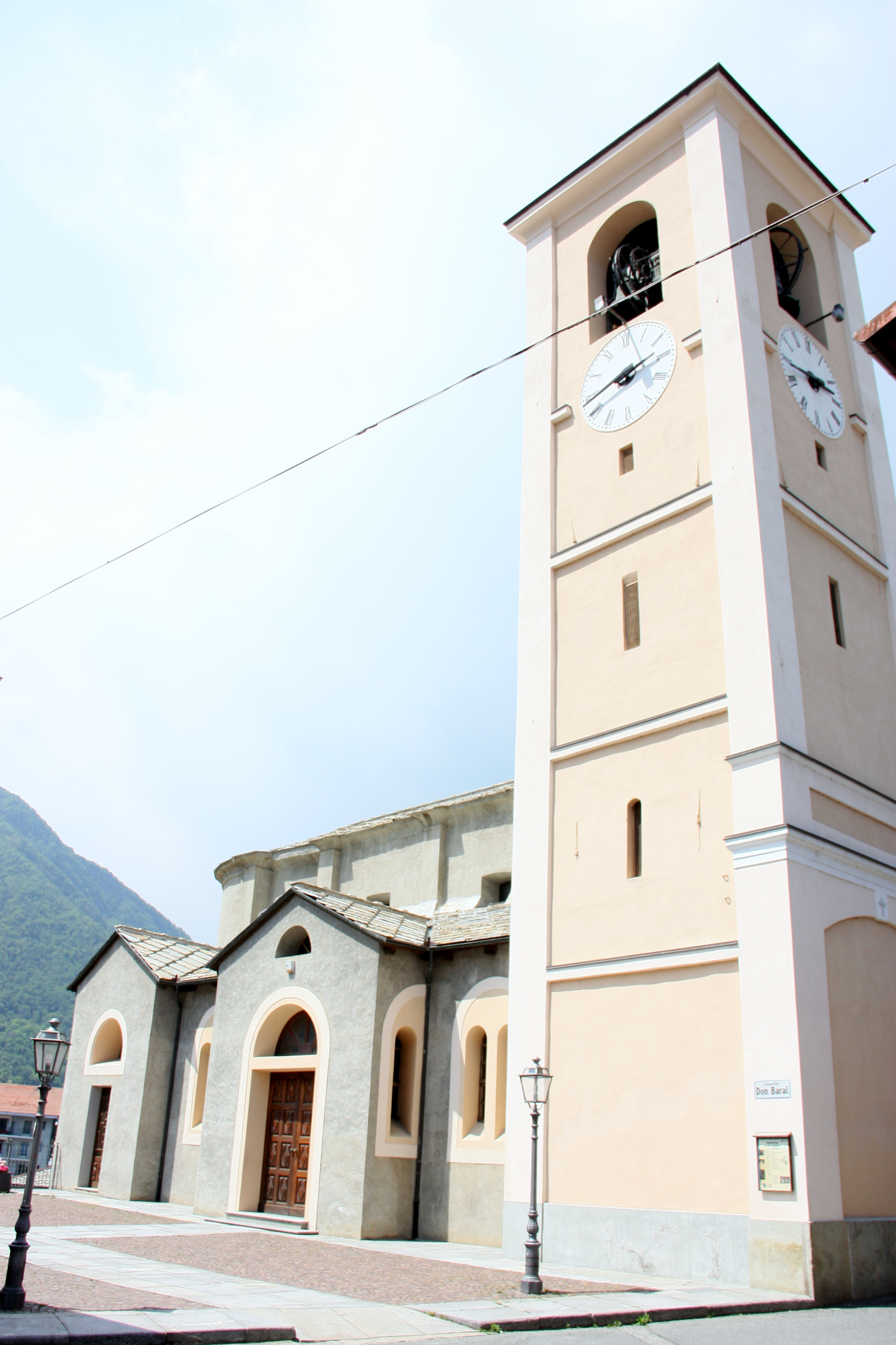 Church St. Genesius in Perosa Argentina